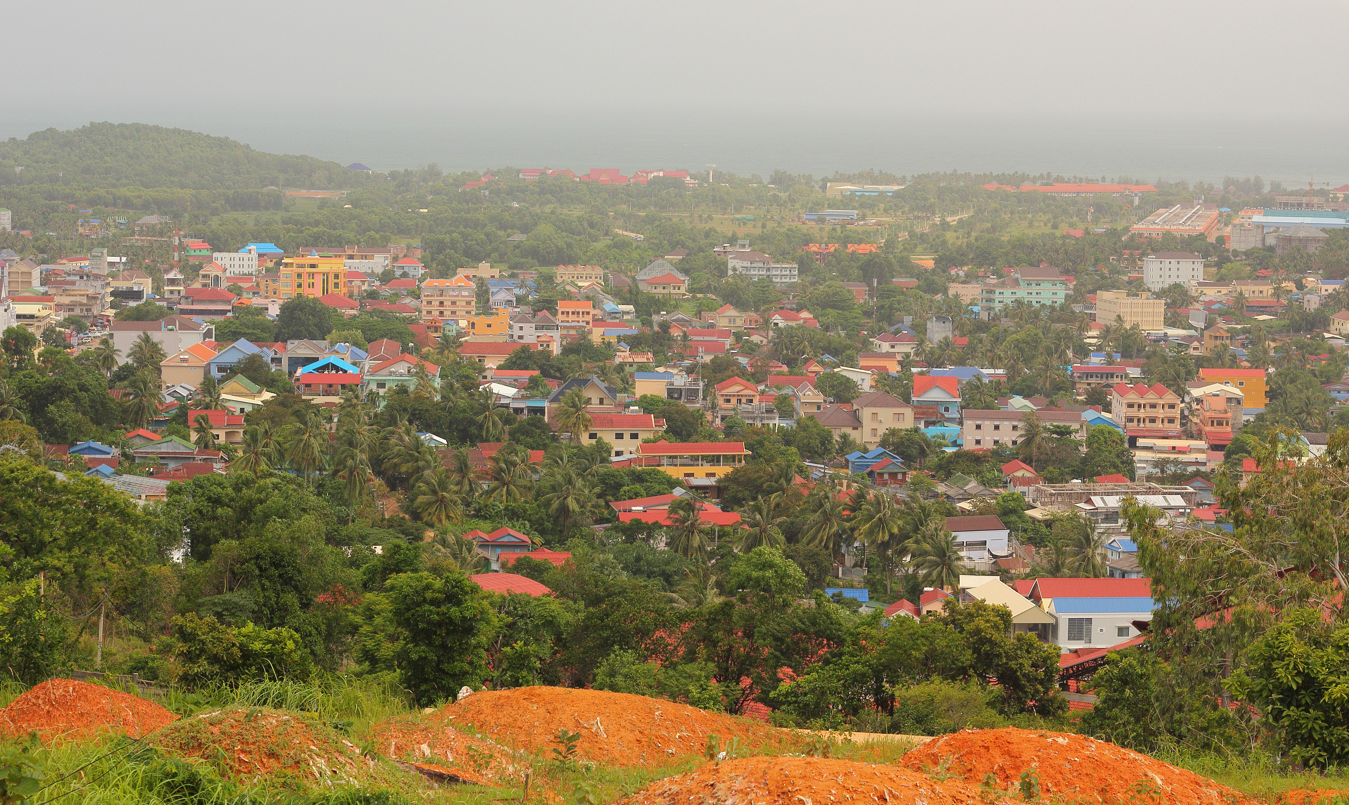 Sihanoukville 2014 ភាសាខ្មែរ: ខេត្តព្រះសីហនុ